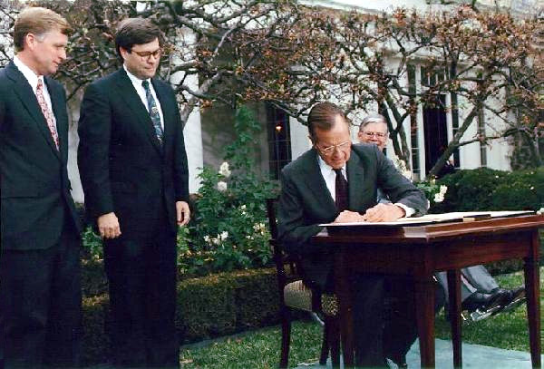 President George H. W. Bush signs the Civil Rights Commission Reauthorization Act in the Rose Garden of the White House. Beside him are Attorney General William Barr and Vice President Dan Quayle. 21 Nov 91